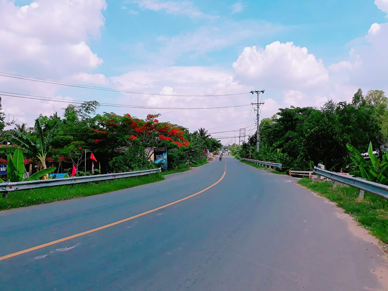 Ong Tinh bridge